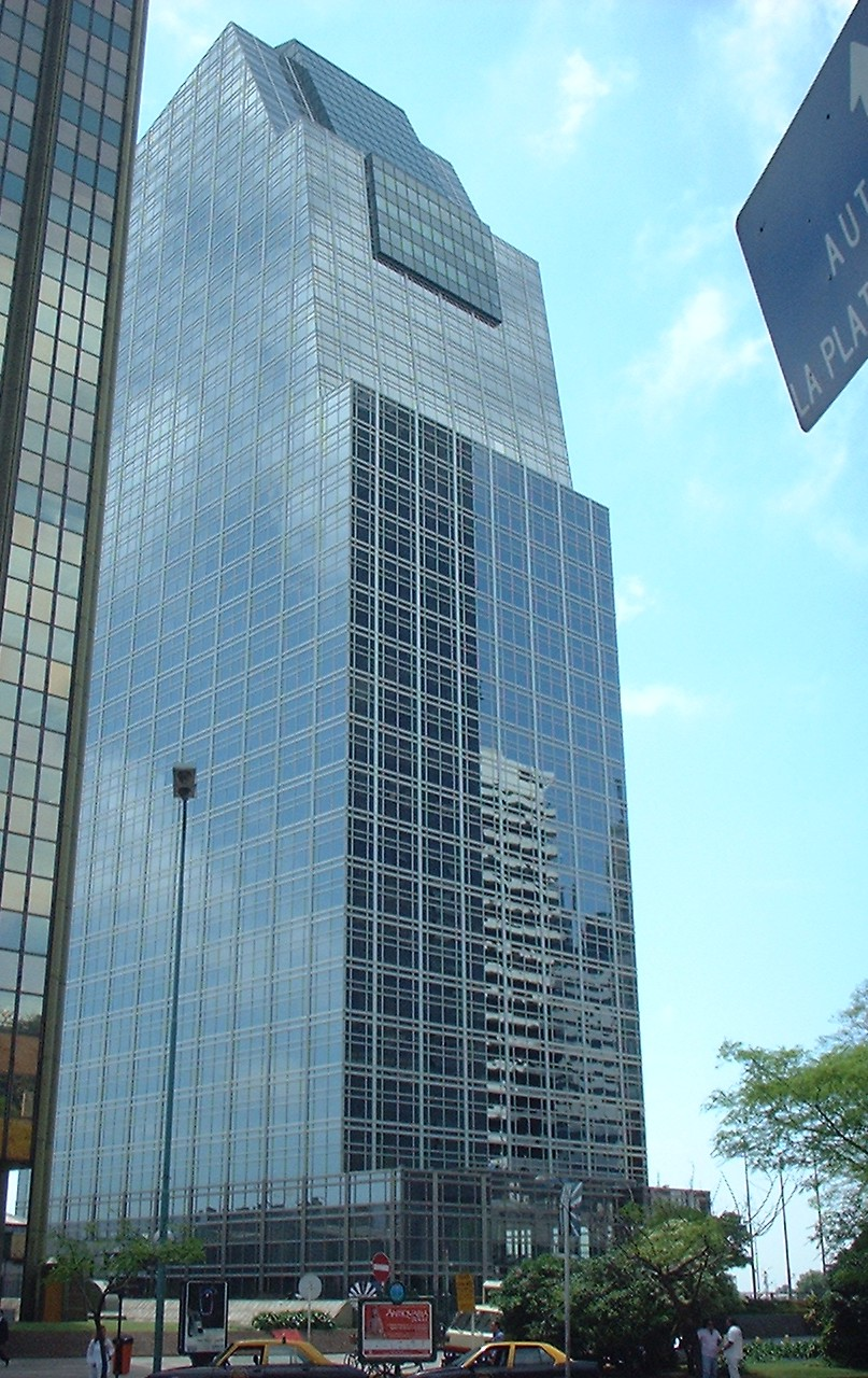 BankBoston Tower in Retiro, Buenos Aires